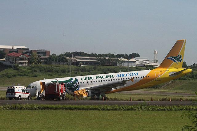 Aftermath of the 5J 971 incident